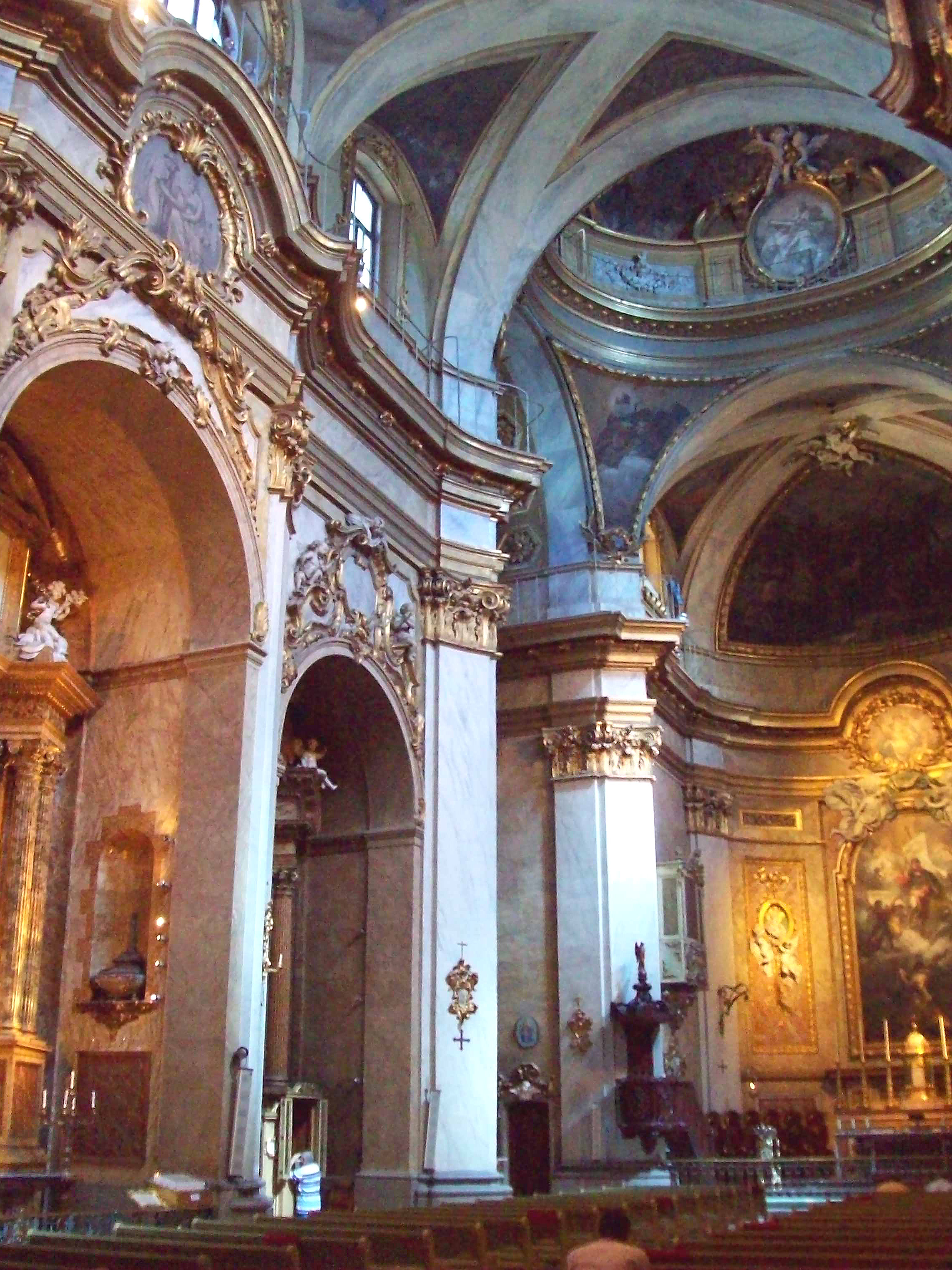 Interior of St. Michael’s Pontifical Basilica in Madrid (Spain).